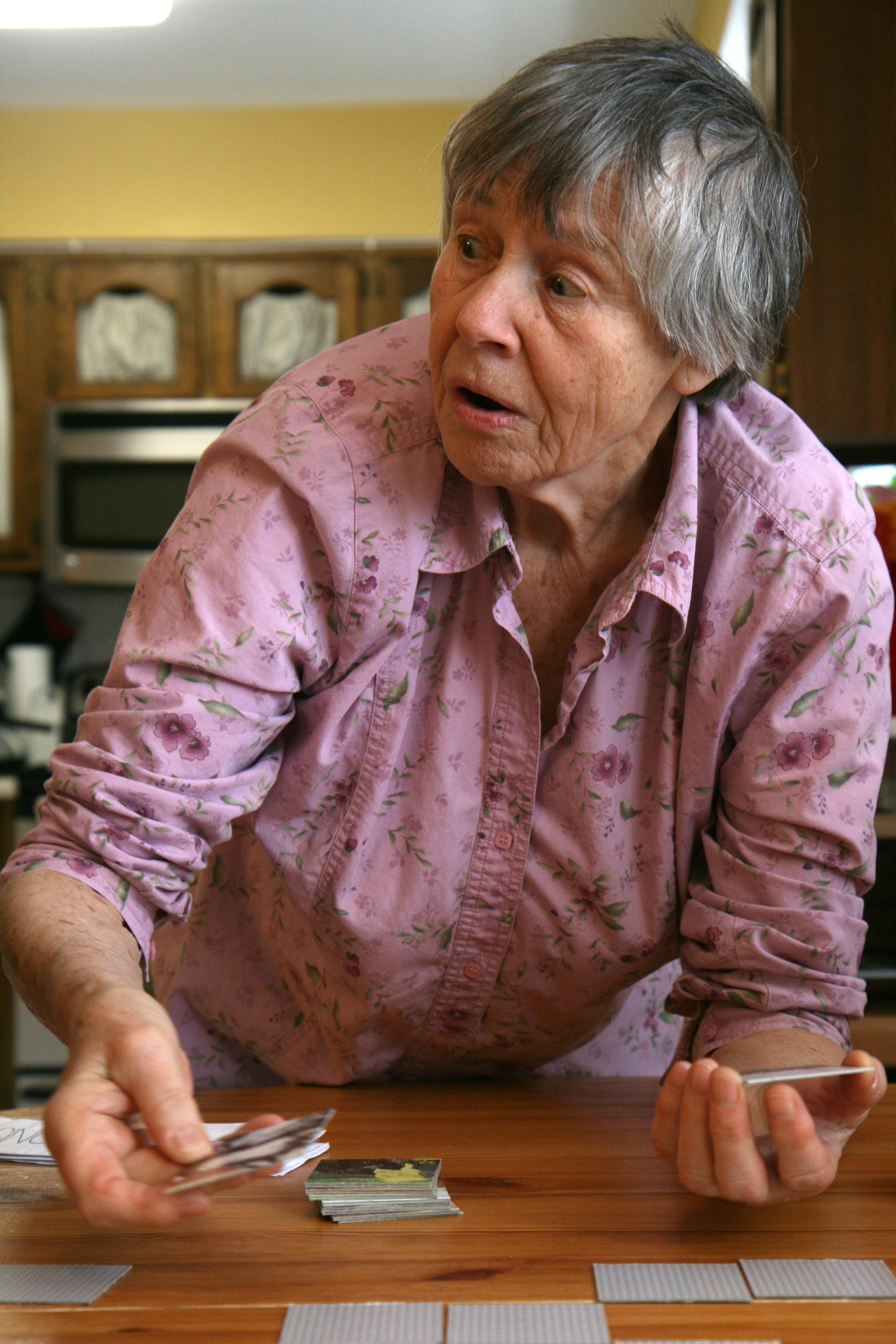 An elderly woman showing surprise while playing a tabletop game.